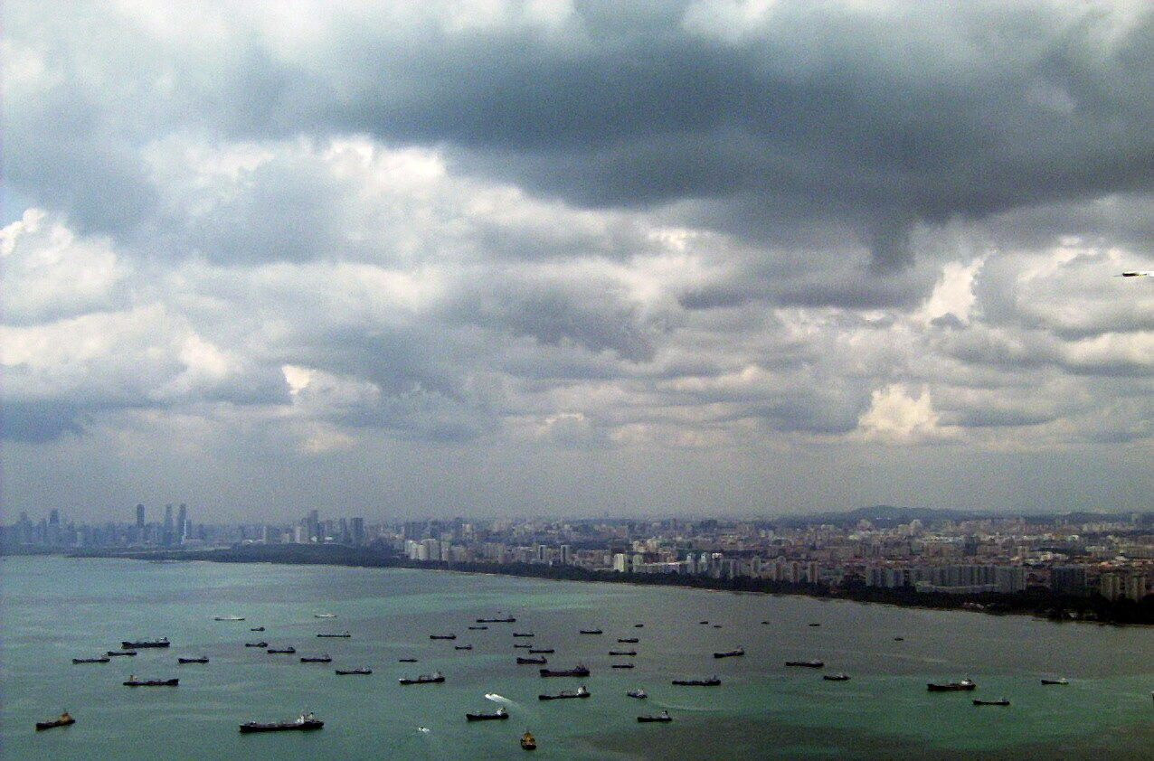 Singapore seen from above, shipping lanes